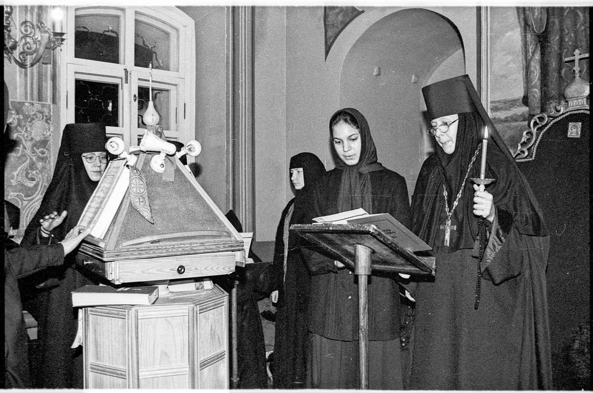 Easter. Night service at Church of the Annunciation Monastery of St. Nicholas. From left to right are: choir director Susanna nun, woman, Nadezhda Korenevich, Abbess Evstolia (Olga Afonina, prioress of the convent of St. Nicholas).